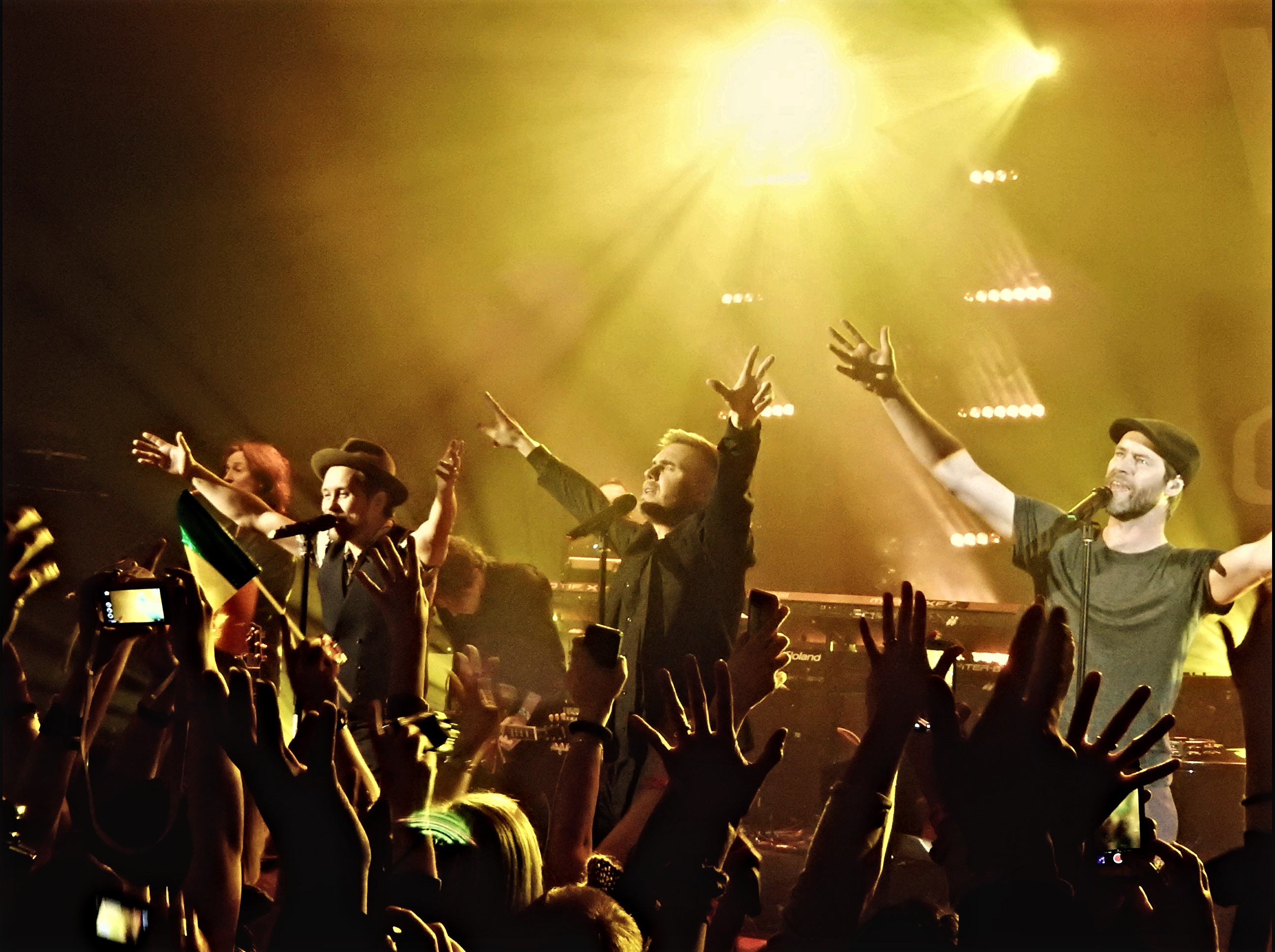 Take That, Shepherds Bush Empire, London